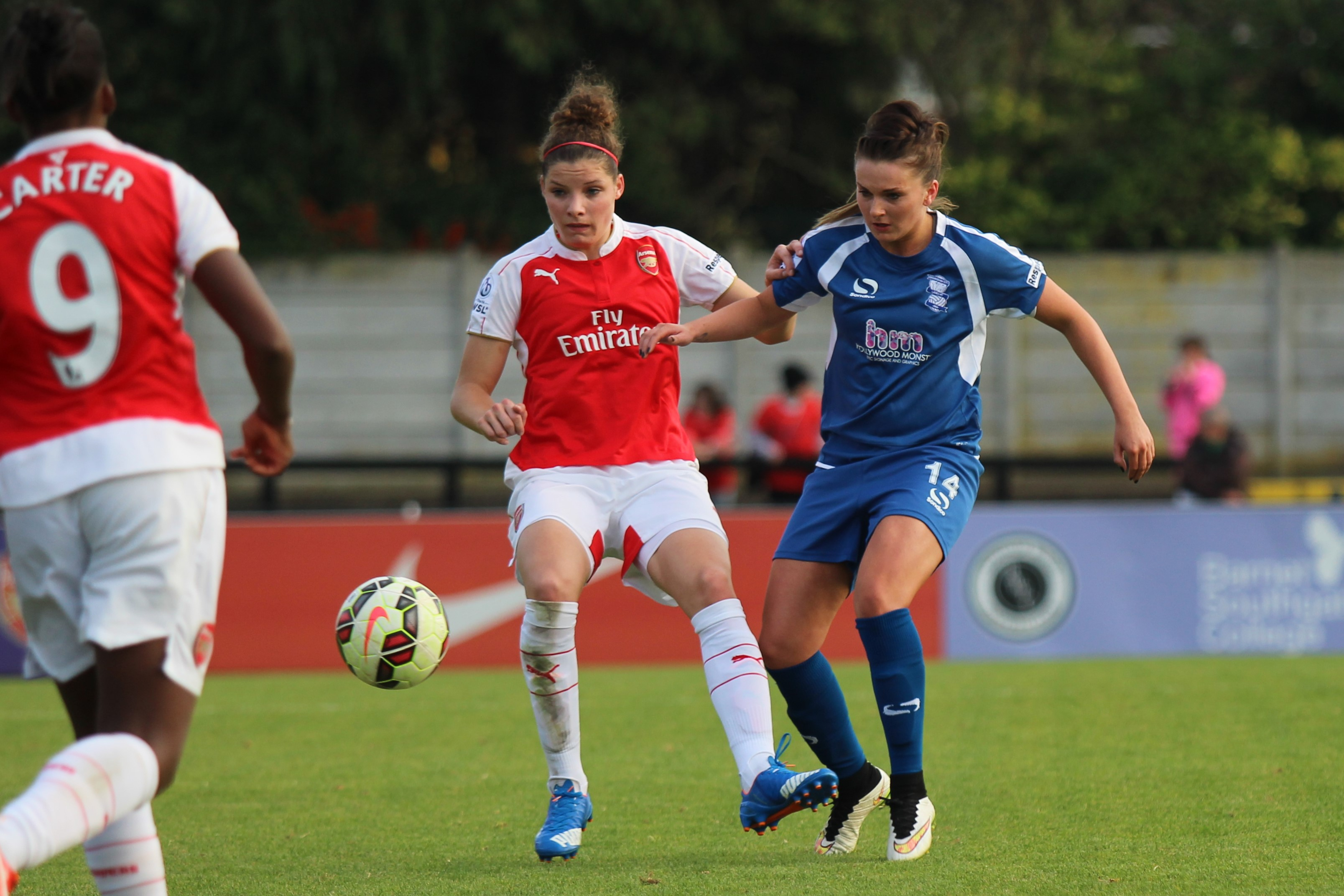 Dominique Janssen of Arsenal Ladies attempts to win the ball during the game against Birmingham.